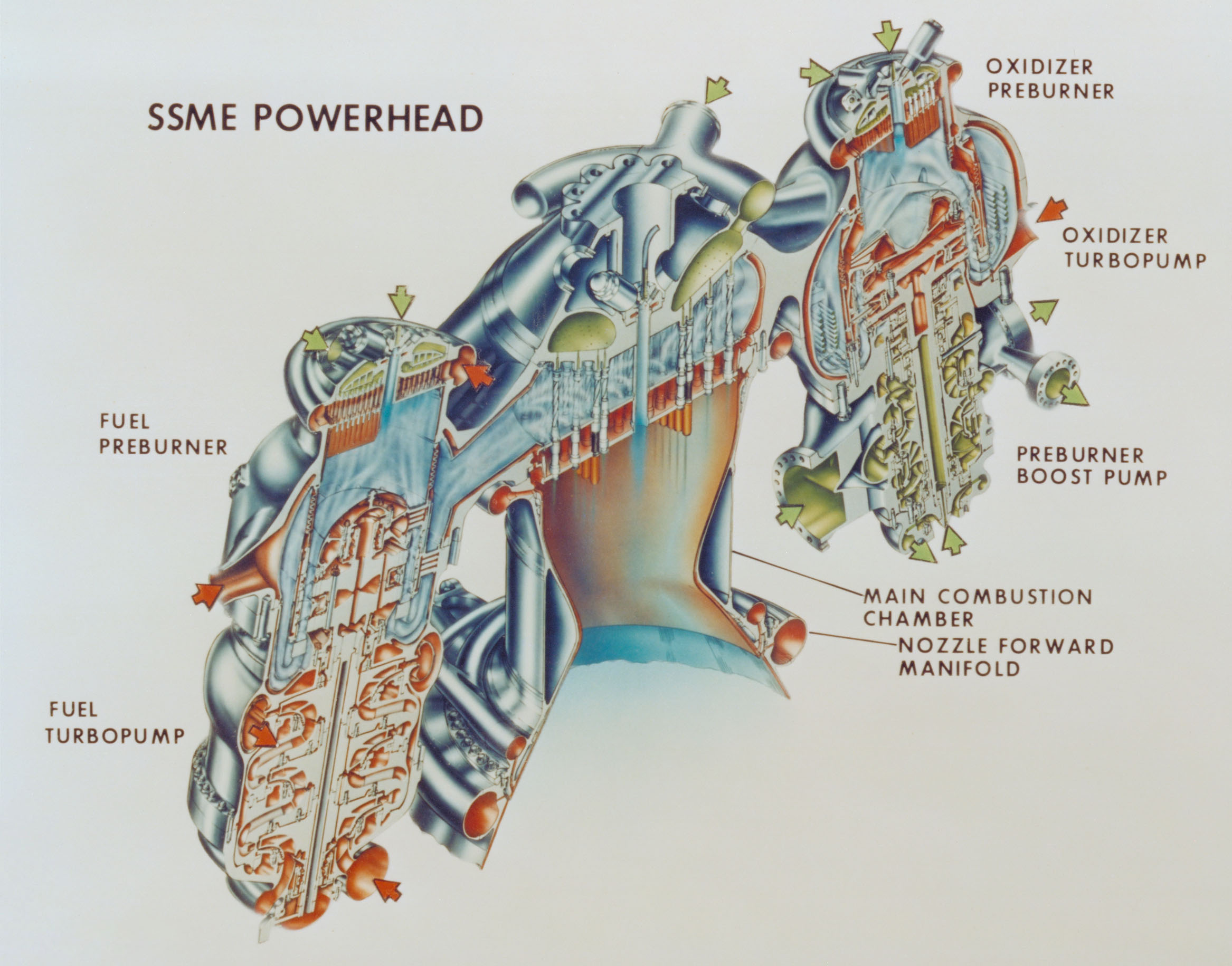 A diagram showing the flow of fuel and oxidiser through the powerhead of a Space Shuttle Main Engine.